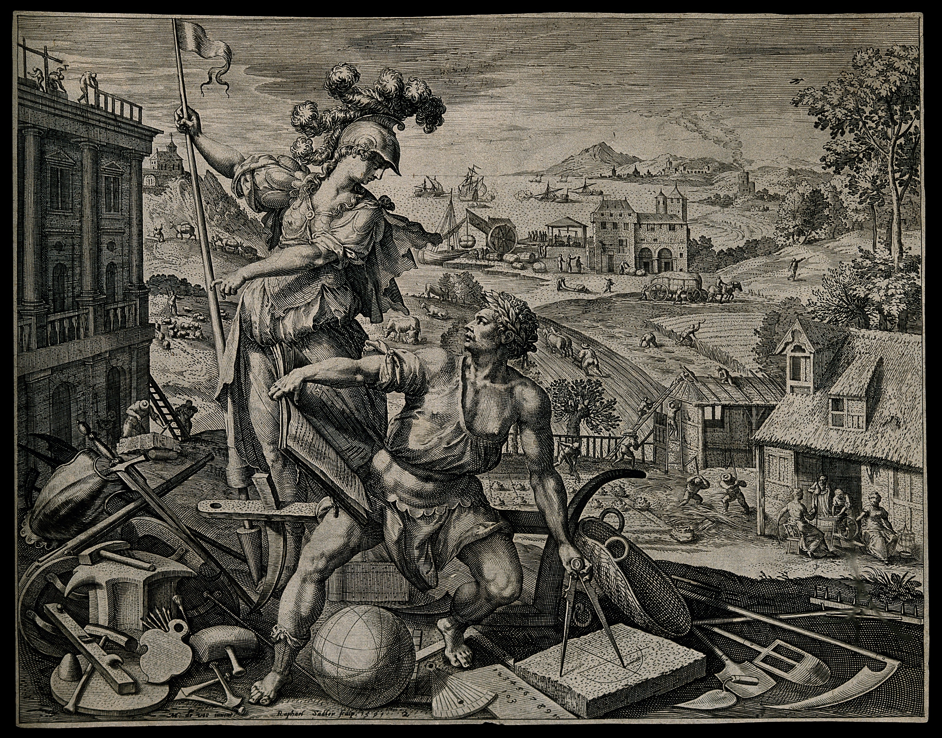 A mathematician draws a semi-circle while Minerva watches over him. Engraving by R. Sadeler, 1591, after M. de Vos.